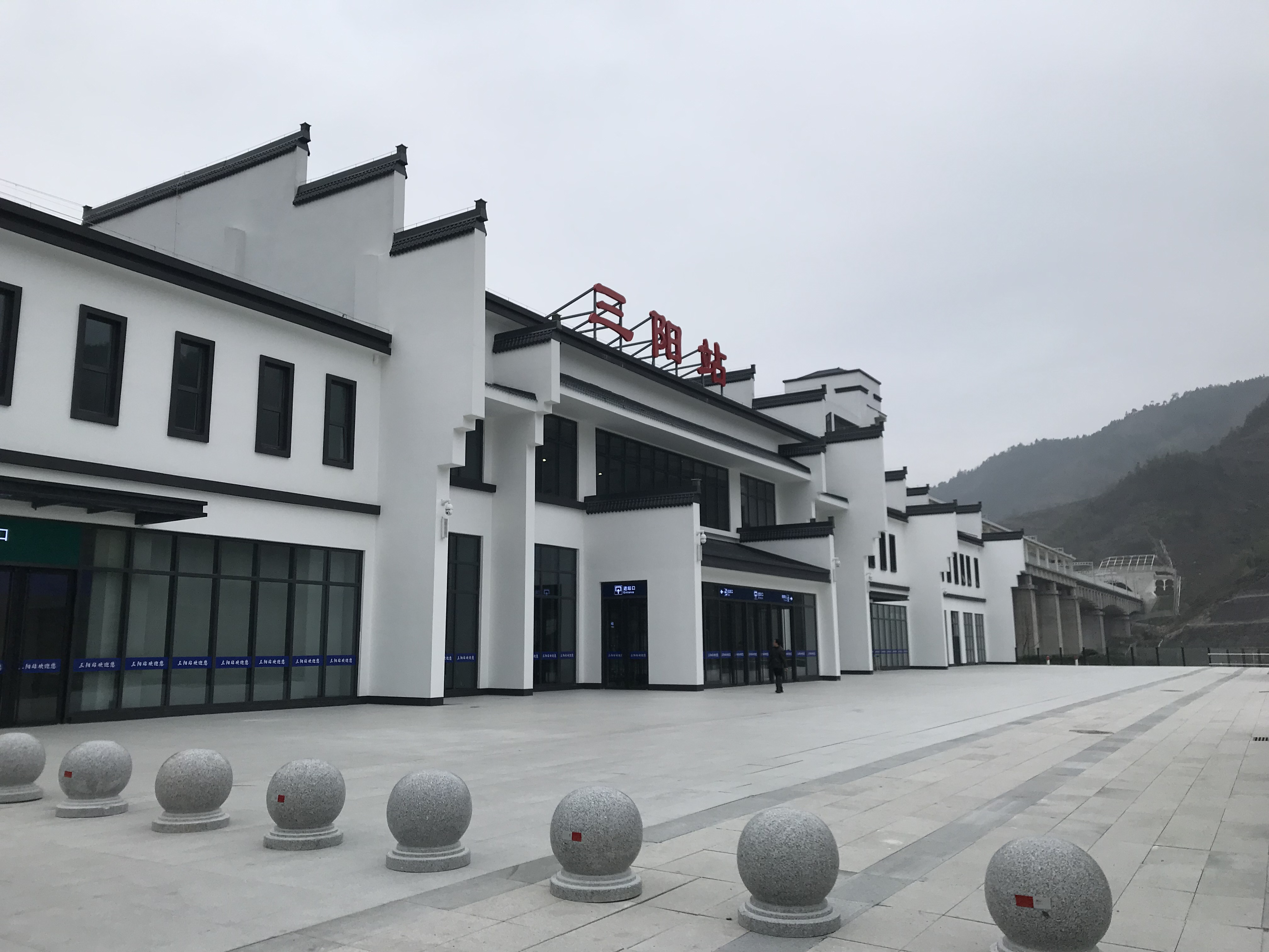 Taken on the Entrance Level